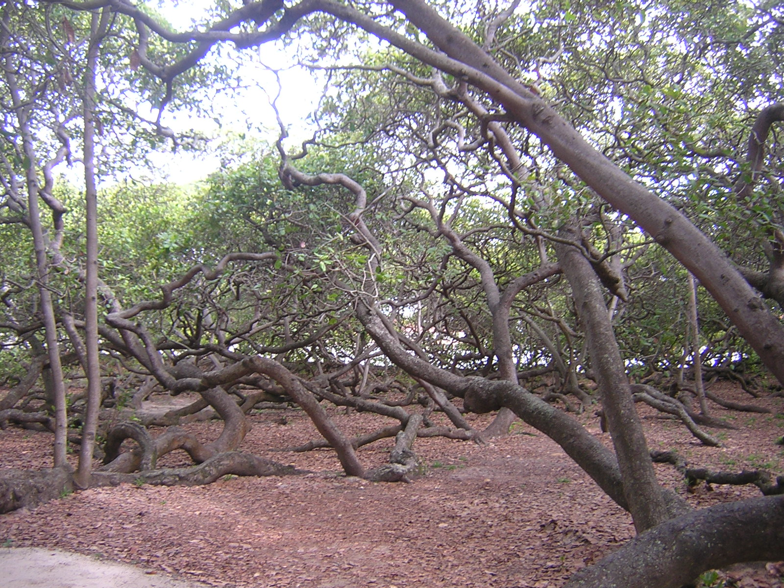 Biggest Cashew-tree in the world, located in Parnamirim, Rio Grande do Norte (Brazil)